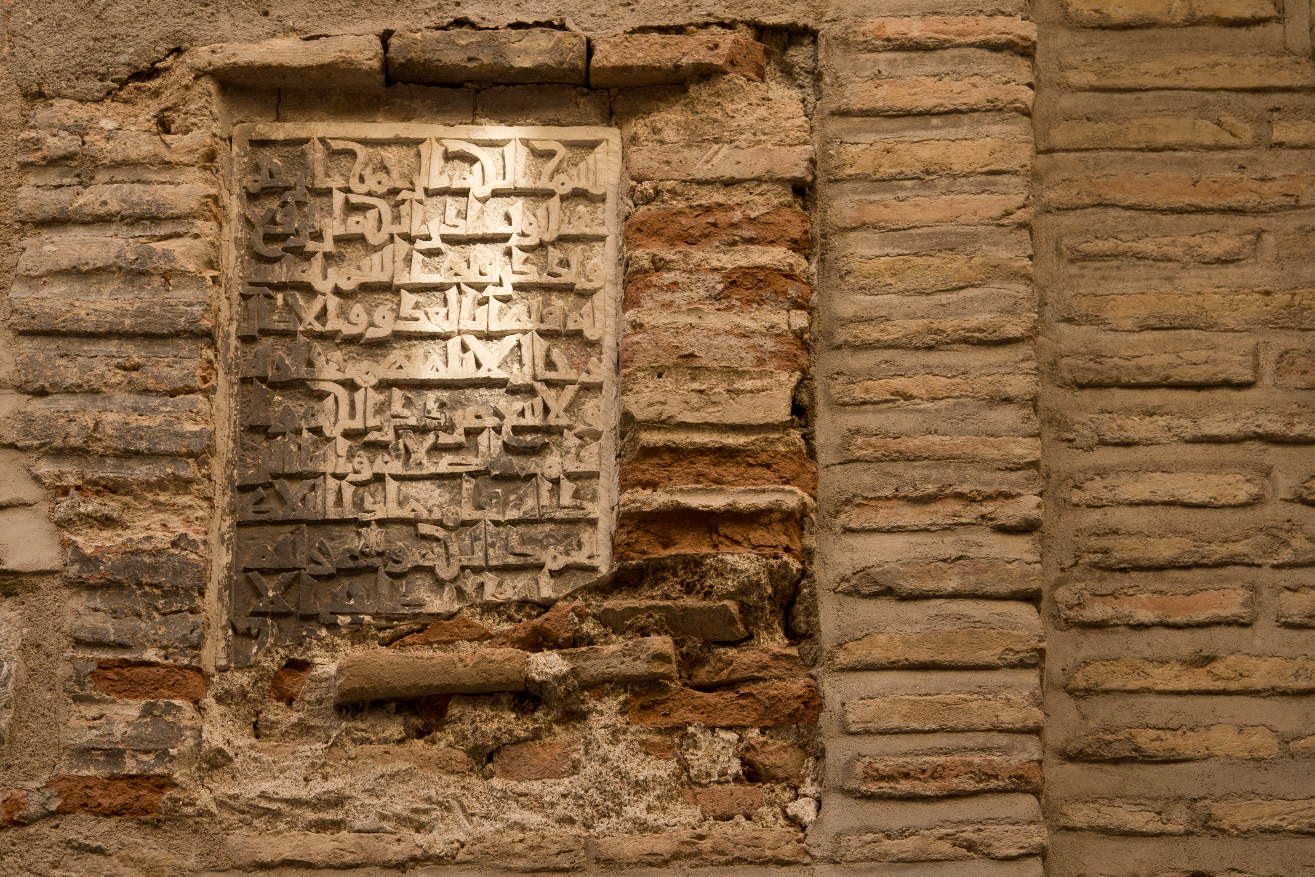 Detail of the facade of the church of Saint Justa and Saint Rufina, Toledo, Spain.